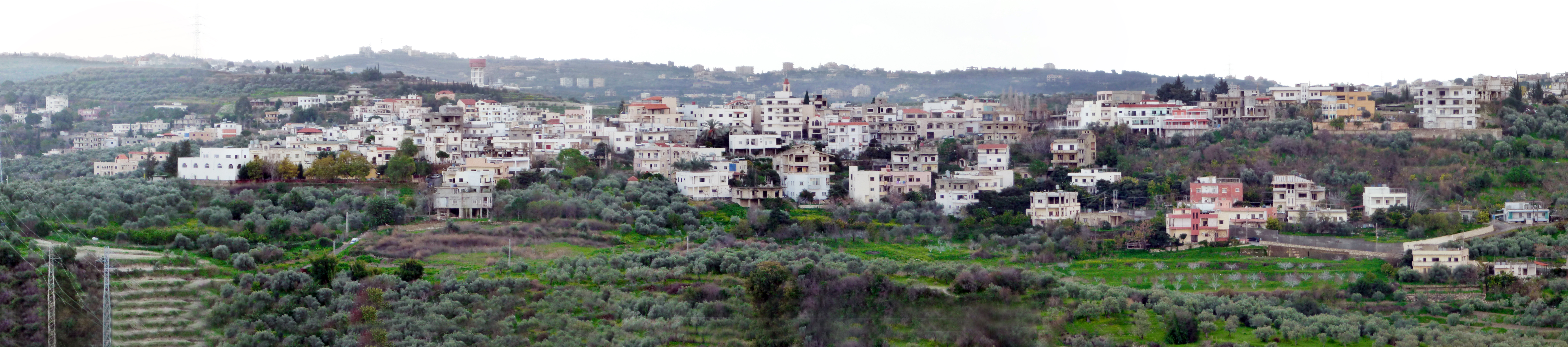 Mieh Mieh from Talet Mar Elias (Saint Elias Hill).